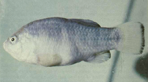 A Tecopa Pupfish. Photographed by Phil Pister and published in the book 'Endangered Wildlife of California' by the Resources Agengy, Department of Fish and Game, State of California (U.S.A.). This book contains no visible notice of copyright and the exact publication date is unknown. According to Internet Archive this book, and thereby this image, is in the public domain.